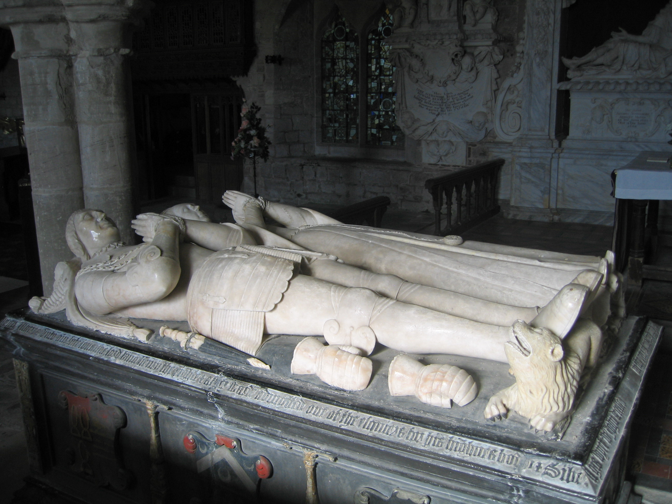 Photograph of a tomb chest with two alabaster effigies in St Cuthbert's Church, Holme Lacy